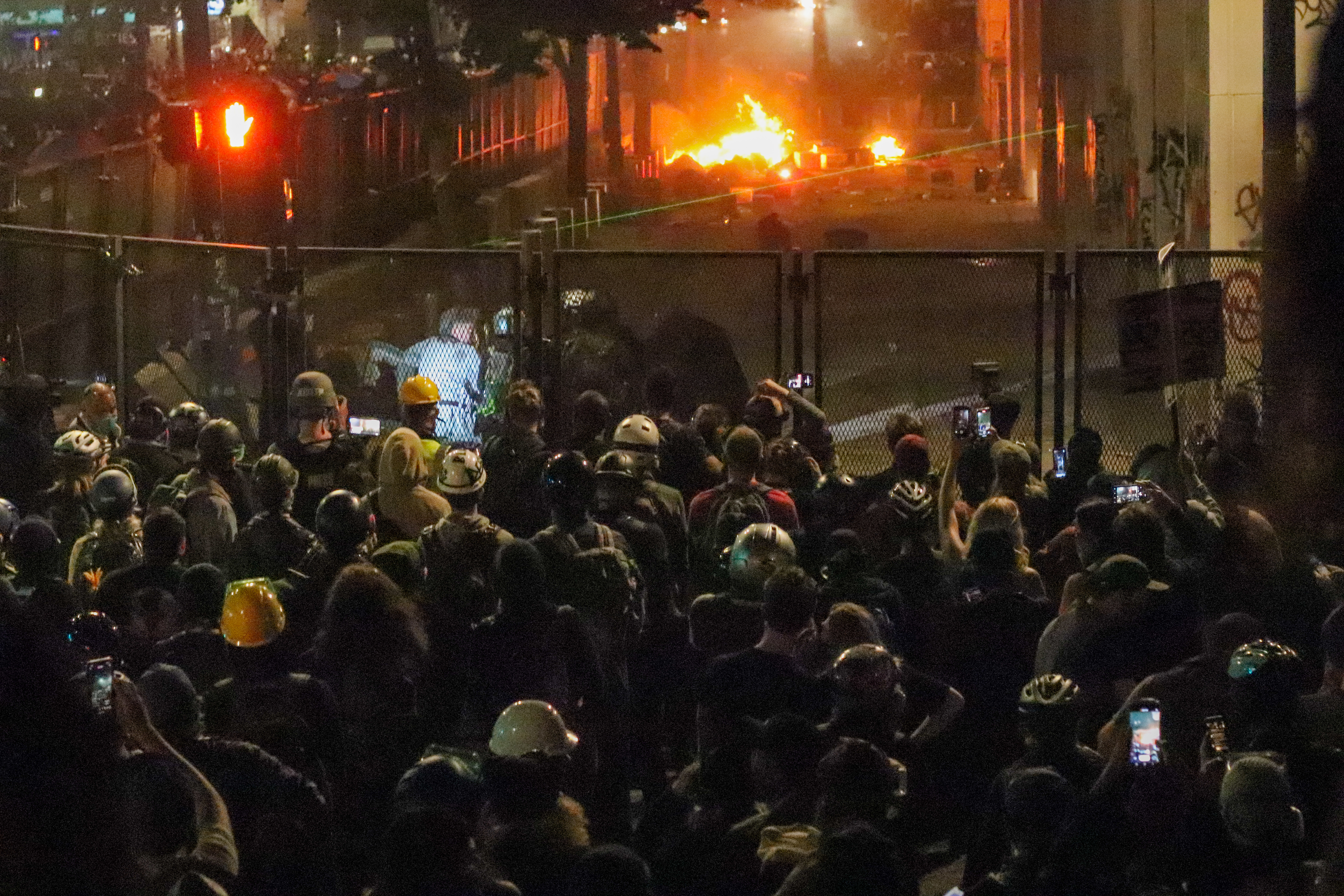 Tear gas from BORTAC and fires at Mark O. Hatfield United States Courthouse during the 2020 George Floyd protests in Portland, Oregon.